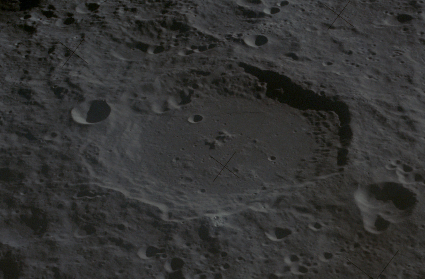 Chaplygin, on the moon.